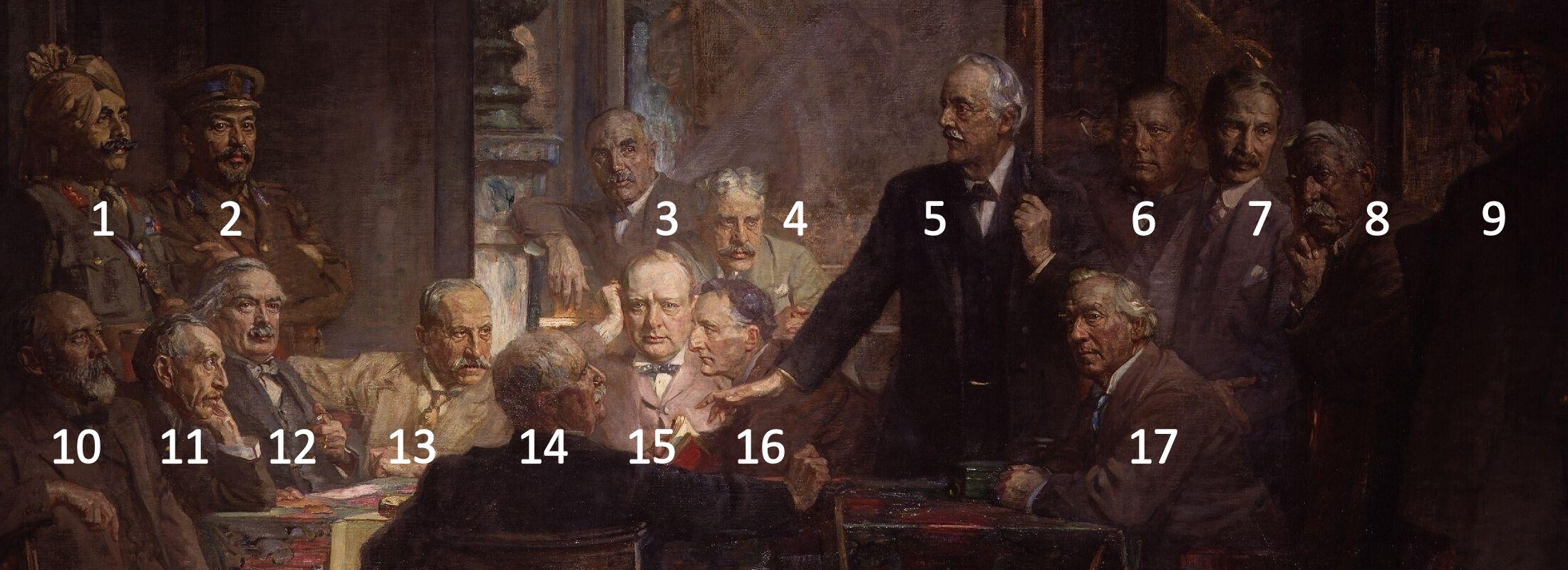 Work given to the National Portrait Gallery, London in 1930. All images in this batch have been confirmed as author died before 1939 according to the official death date listed by the NPG. The individuals depicted are: Ganga Singh, Maharaja of Bikaner, only "non-White" member of the Imperial War Cabinet Louis Botha, Prime Minister of the Union of South Africa (1910–19) George Nicoll Barnes, leader of the National Democratic and Labour Party Sir Robert Borden, Prime Minister of Canada (1911–20) Arthur Balfour, 1st Earl of Balfour, former Prime Minister of the United Kingdom (1902-05); First Lord of the Admiralty (1915–16) and Foreign Secretary (1916–19) Sir Eric Campbell Geddes, First Lord of the Admiralty (1917–19) Andrew Bonar Law, Leader of the Opposition (1911–15), Secretary of State for the Colonies (1915–16), Chancellor of the Exchequer (1916–19), later Prime Minister (1922–23) Edward Morris, 1st Baron Morris, Prime Minister of Newfoundland (1909–17) Herbert Kitchener, 1st Earl Kitchener, Secretary of State for War (1914–1916) Sir Joseph Cook, former Prime Minister of Australia (1913–14), Leader of the Opposition (Australia) (1914–1916), Minister for the Navy (1917–20) (with beard) Billy Hughes, Prime Minister of Australia (1915–23) David Lloyd George, 1st Earl Lloyd-George, Chancellor of the Exchequer (1908–1915), Minister of Munitions (1915–1916), Secretary of State for War (1916), Prime Minister (1916–1922) Alfred Milner, 1st Viscount Milner, Secretary of State for War (1918–19) William Massey, Prime Minister of New Zealand (1912–25) Sir Winston Churchill, First Lord of the Admiralty (1911–15), Minister of Munitions (1917–19), later Prime Minister (1940–45 and 1951–55) Edward Grey, 1st Viscount Grey of Fallodon, Foreign Secretary (1905–16) Herbert Henry Asquith, 1st Earl of Oxford and Asquith, Prime Minister of the United Kingdom (1908–16)